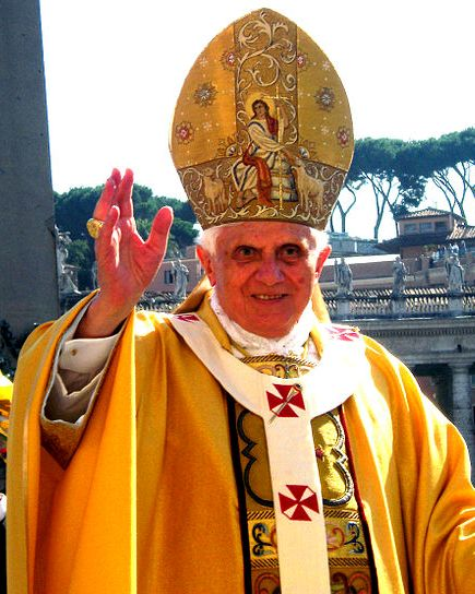 Pope Benedict XVI performing a blessing during the canonization mass in St. Peter's Square in Rome, Italy on Sunday October 12, 2008